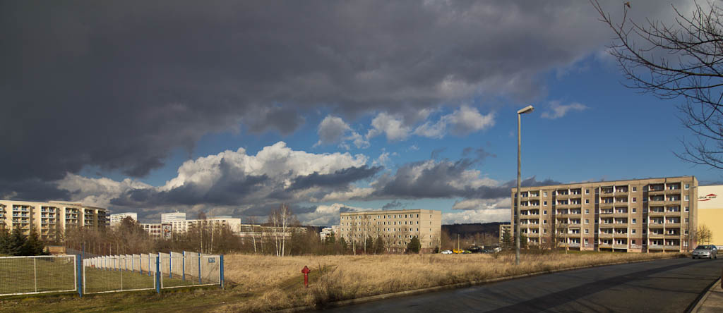 Dark clouds over the residential area Lusan in Gera.